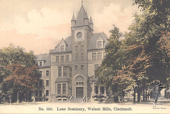 The date of 1850 is made up because the software requires a date be entered. Lane was founded about 1828 and went out of existence in 1932? The quality of the photography and reproduction suggest late 19th century, but that is just a guess.